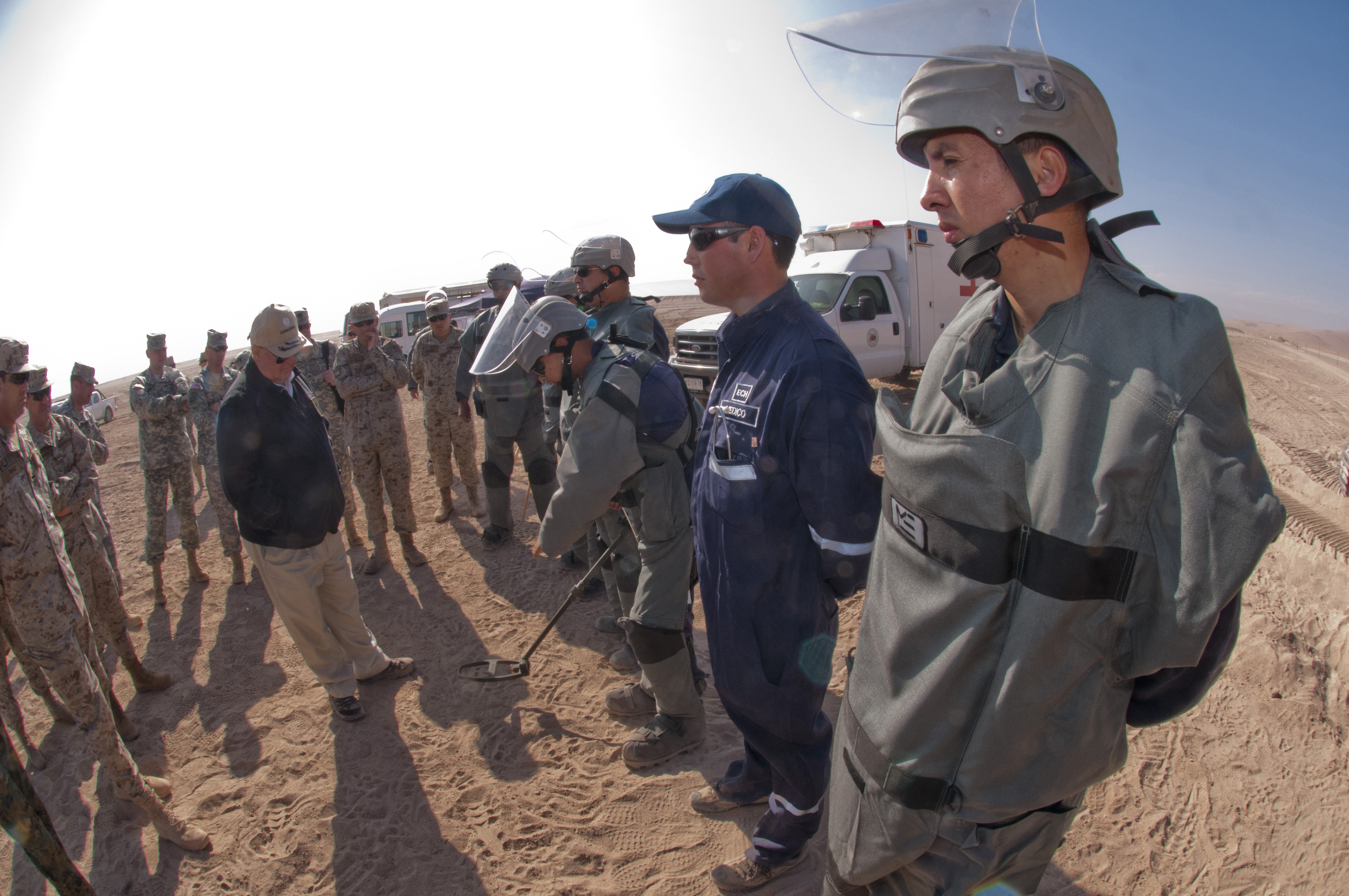 A Chilean soldier in a bomb disposal suit demonstrates to U.S. Under Secretary of the Army Dr. Joseph W. Westphal how dangerous munitions are safely removed from the Chilean - Peruvian border during humanitarian demining operations during a recent visit to Quebrada de Escritos, Chile, June 11, 2012. Dr. Westphal participated in the 12th U.S. - Chile Defense Consultative Commission and visited with select Chilean Army units to expand partnership capacity. The U.S. - Chilean defense partnership is focused on a range of initiatives, from disaster response to conducting joint exercises and training.